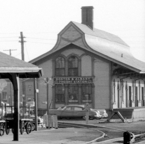 The 1848 South Framingham station in 1959, having been moved west of the newer H.H. Richardson station for use as a freight house